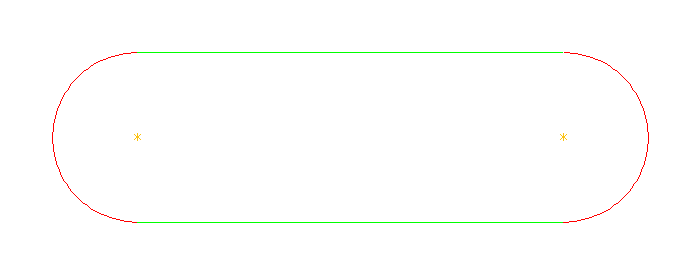 I created this from an IGES file that I also created in 1987 while a software developer at Applicon. for the original.